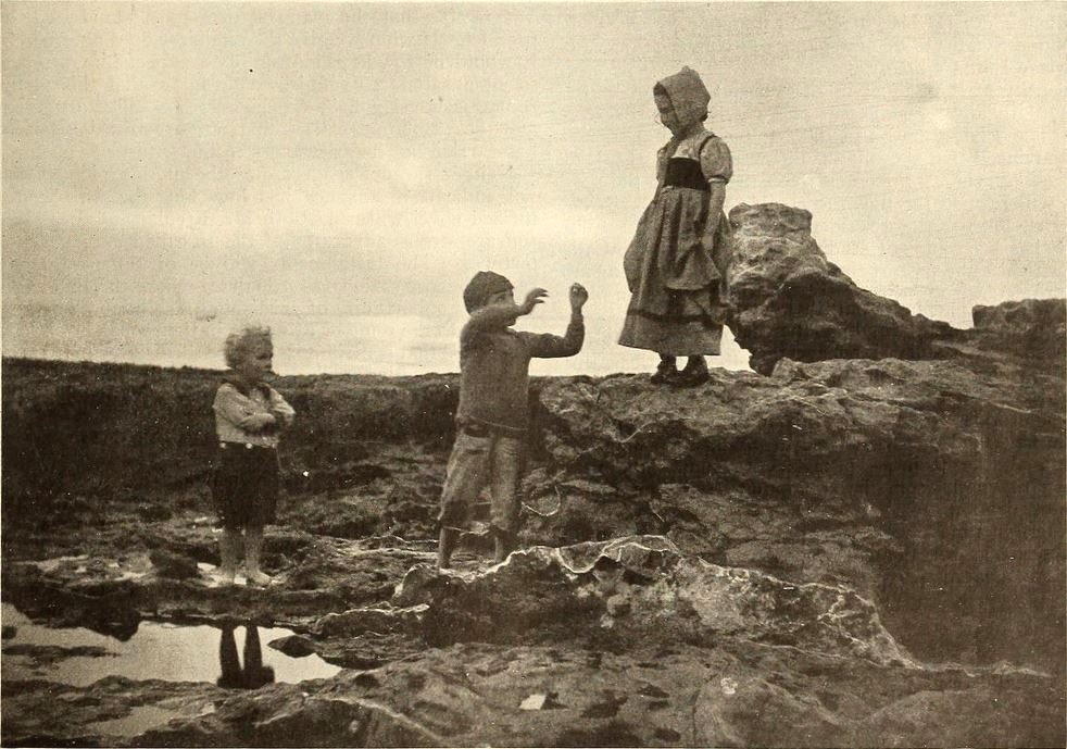 Still from the American film Enoch Arden (1915) depicting the main characters as children, on page 5 of the March 27, 1915 Reel Life magazine.